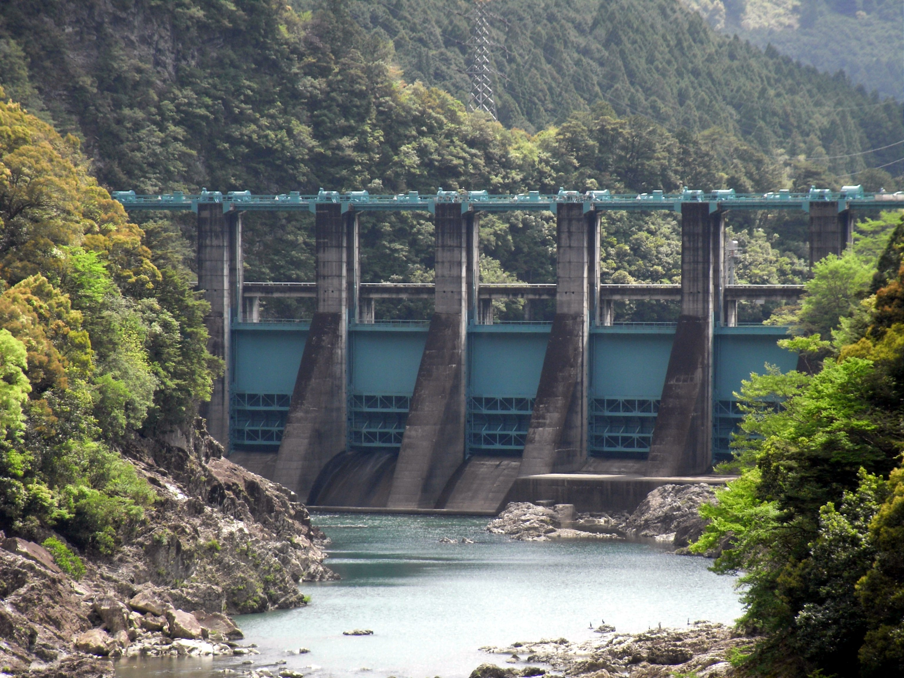 Komori Dam(Kitayamagawa river/Mie Pref./Japan)